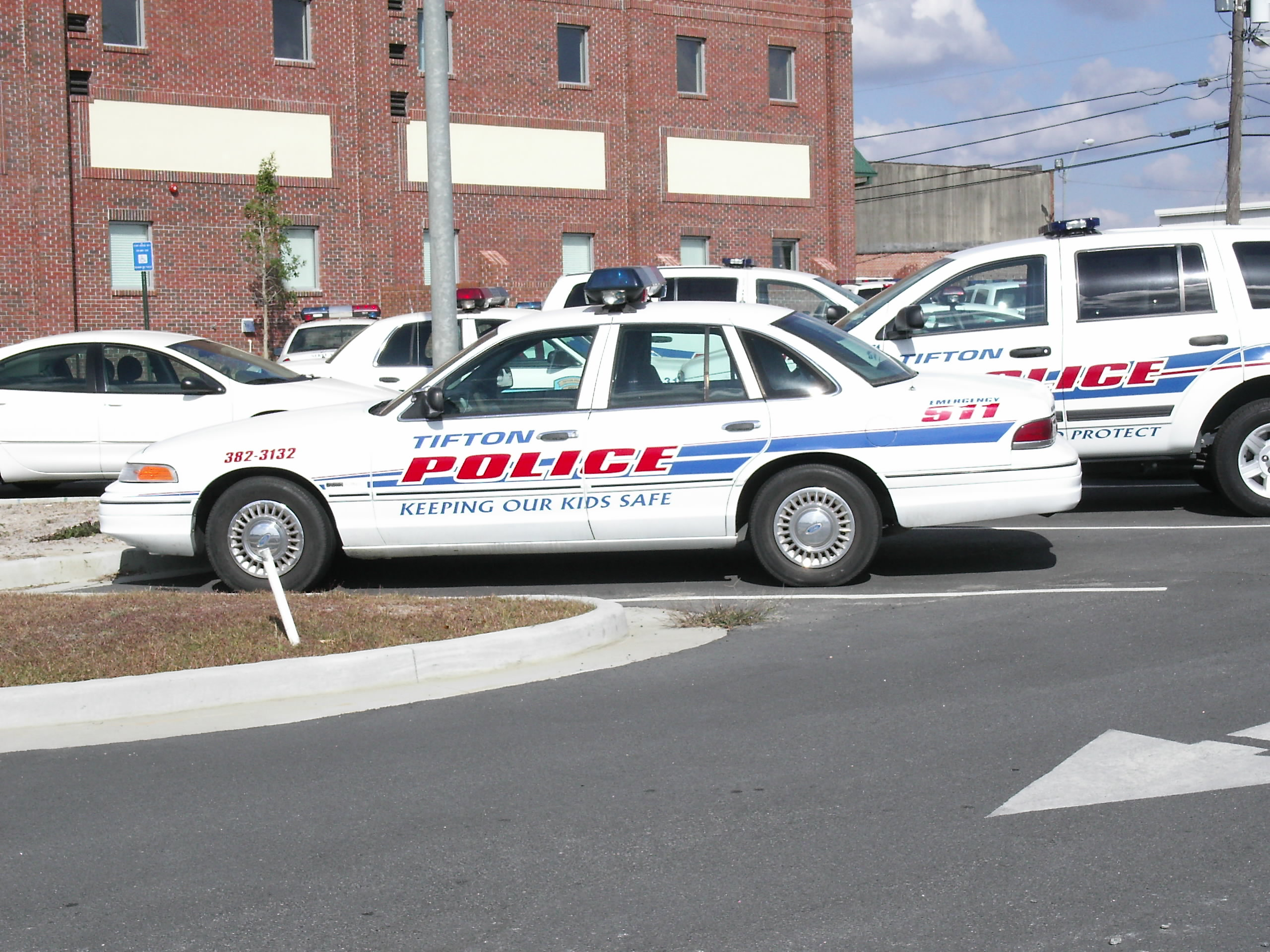 Tifton, Tift county, Georgia